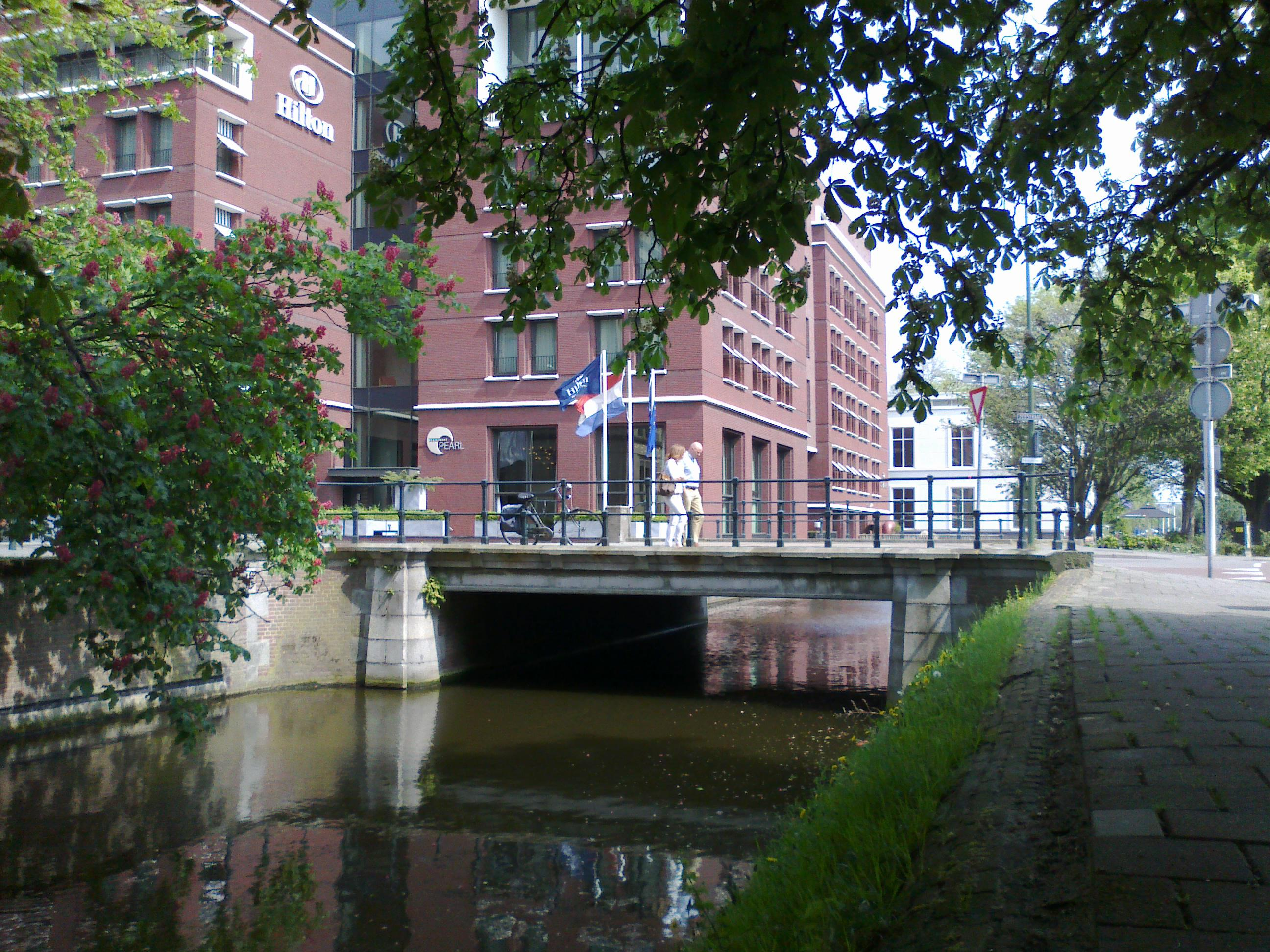 The Scheveningen Bridge at the Zeestraat and Scheveningseveer, The Hague. To the upper-left the Hilton Hotel.